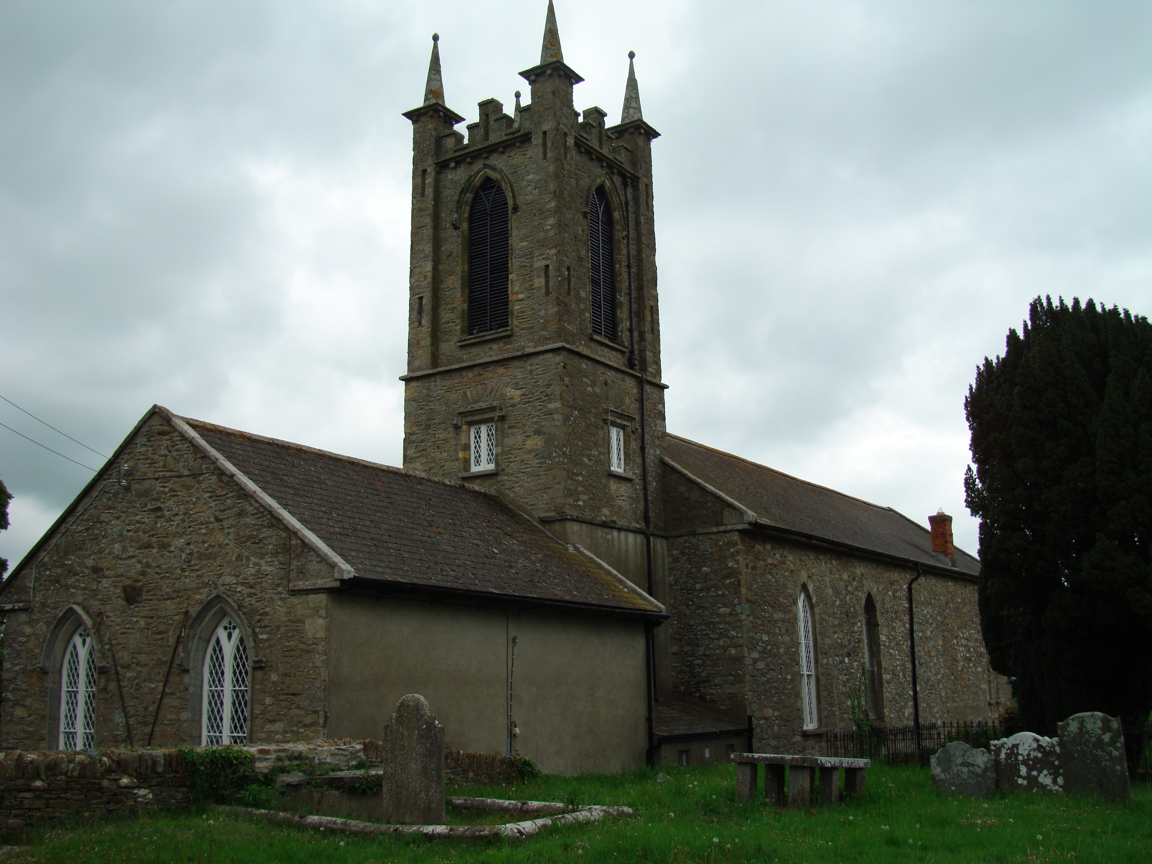 Photograph of Ferns Cathedral, Co. Wexford, Republic of Ireland